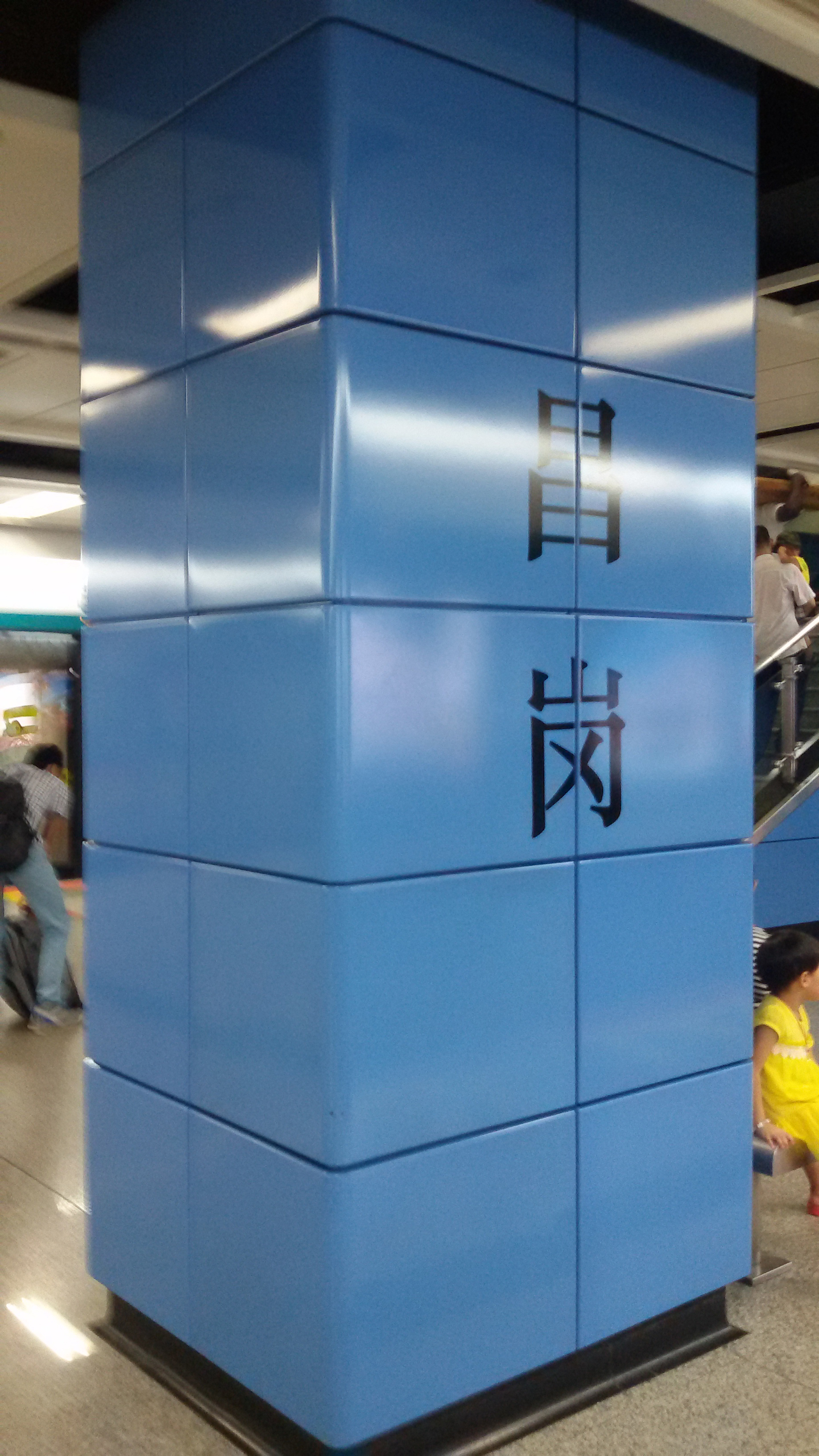 WORD on PILLAR for Changgang Station at Line 8 in Guangzhou Metro.